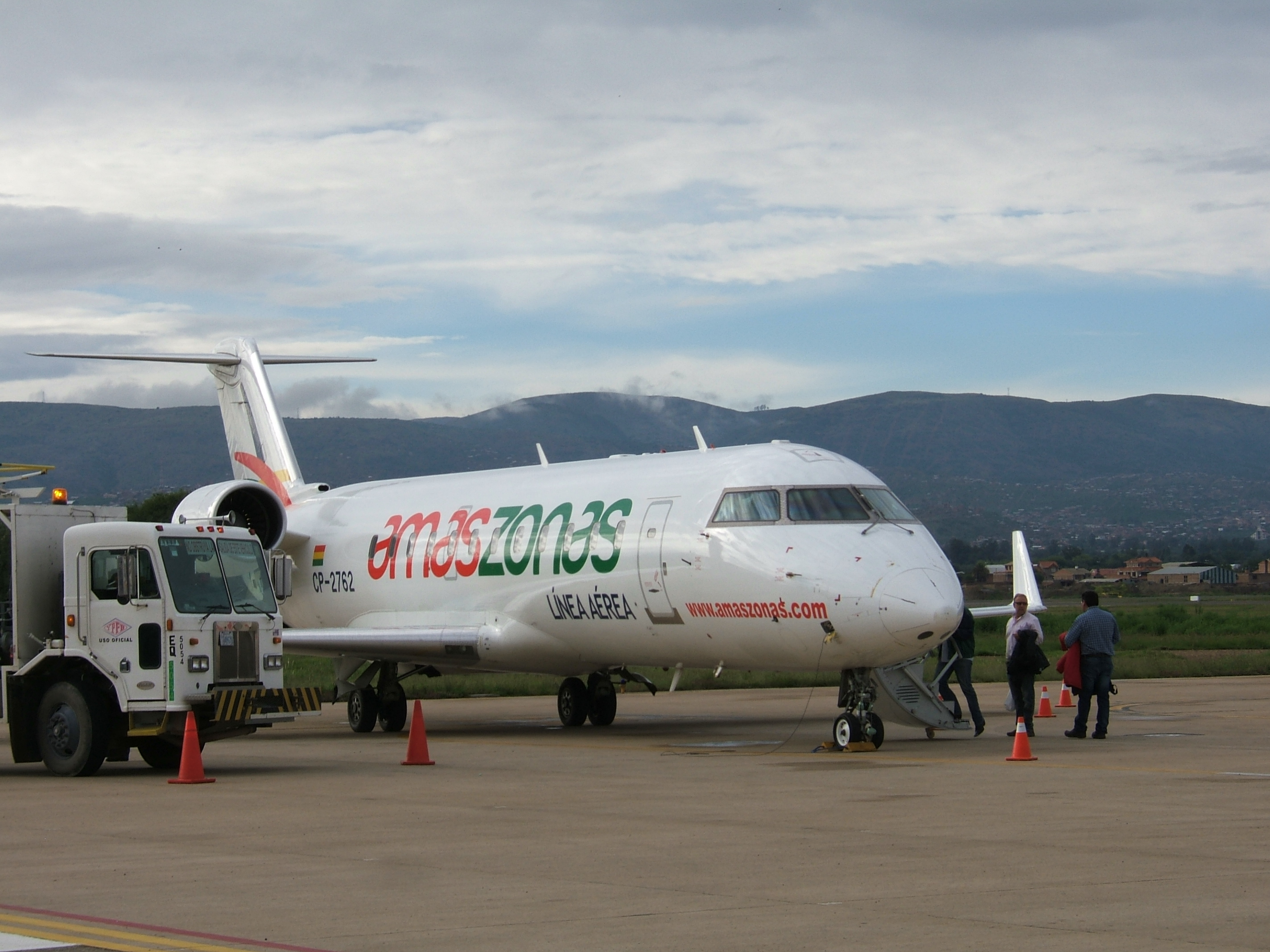 Bombardier CRJ from Amaszonas